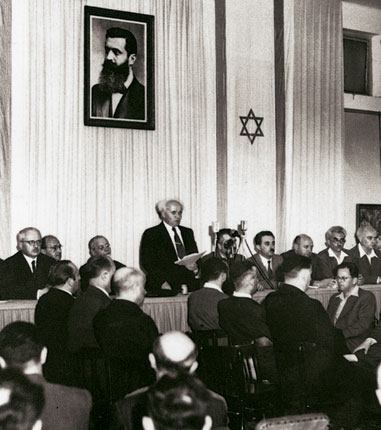 David Ben-Gurion (First Prime Minister of Israel) publicly pronouncing the Declaration of the State of Israel, May 14 1948, Tel Aviv, Israel, beneath a large portrait of Theodor Herzl, founder of modern political Zionism, in the old Tel Aviv Museum of Art building on Rothshild St. The exhibit hall and the scroll, which was not yet finished, were prepared by Otte Wallish.